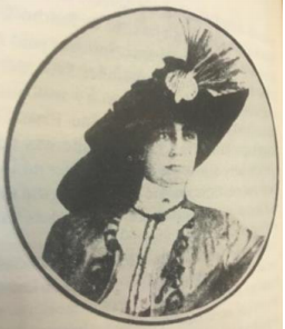 Janette Muir Springer, third wife of John Wallace Singer and ex-wife of artist Carl Lotave